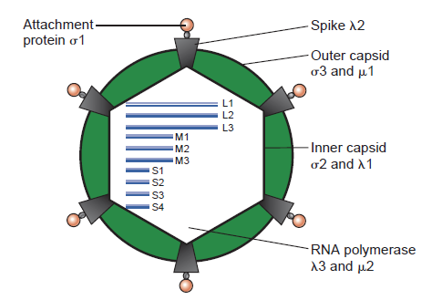 The T=1 inner capsid encloses the 10 double-stranded RNA gene segments and is covered by a T=13 outer capsid. Twelve spikes project from the core through the outer capsid. Gene segments are classified as large (L), medium (M), or small (S) based on relative electrophoretic mobilities. Viral capsid proteins are labeled. Nine of the 10 reovirus gene segments code for a single protein; the exception is the S1 gene, which codes for both the (sigma)1 attachment protein and the (sigma)1s nonstructural protein in overlapping reading frames. Viral proteins are named with the Greek letters (lambda), (mu), and (sigma), corresponding to the size classes (L, M, and S) of their respective gene segments.